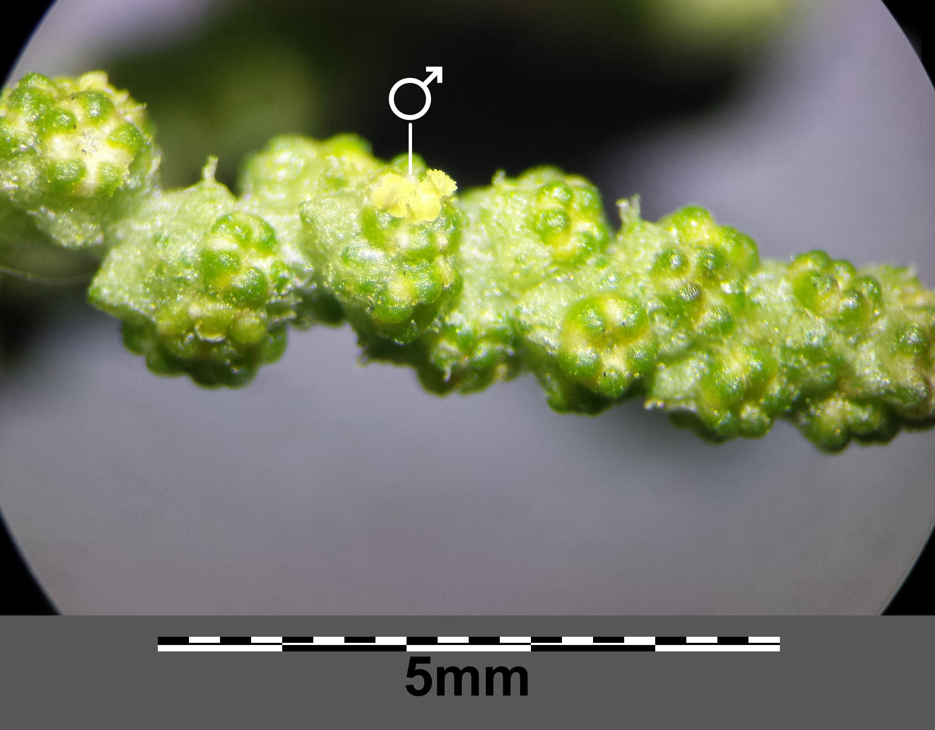 Inflorescence with predominantly male flowers Taxonym: Atriplex sagittata ss Fischer et al. EfÖLS 2008 ISBN 978-3-85474-187-9 Location: Sinawastingasse, Vienna-Floridsdorf - ca. 160 m a.s.l. Habitat: slope